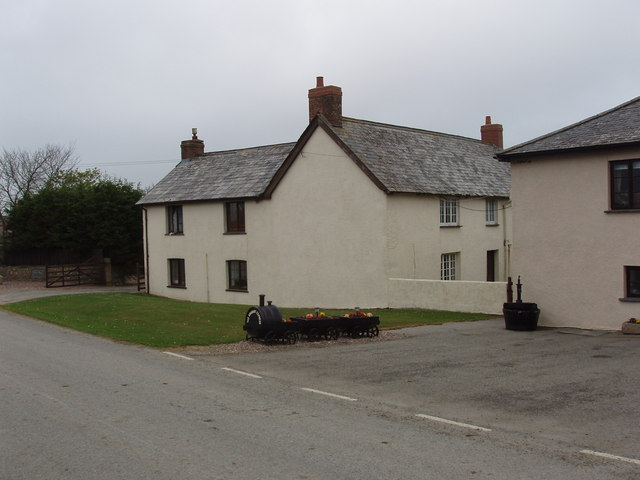 Moreton Pound Farm Mentioned in the Domesday Book, this farm now has these holiday cottages.